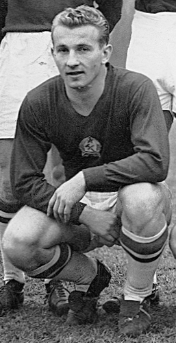 The Golden Team in 1953